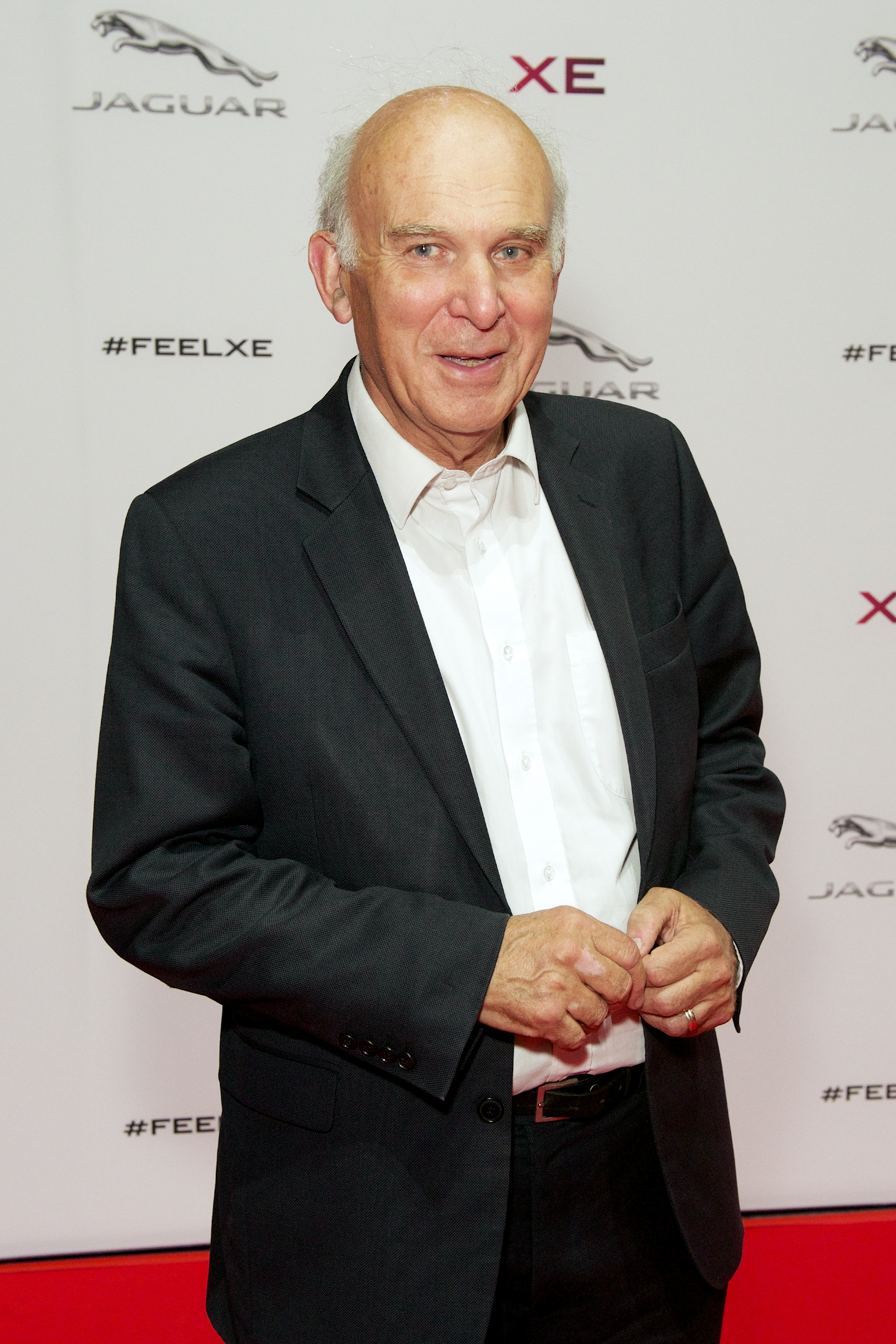 Vince Cable was a guest of Jaguar at the reveal of the new XE in London, Monday 8th September 2014.